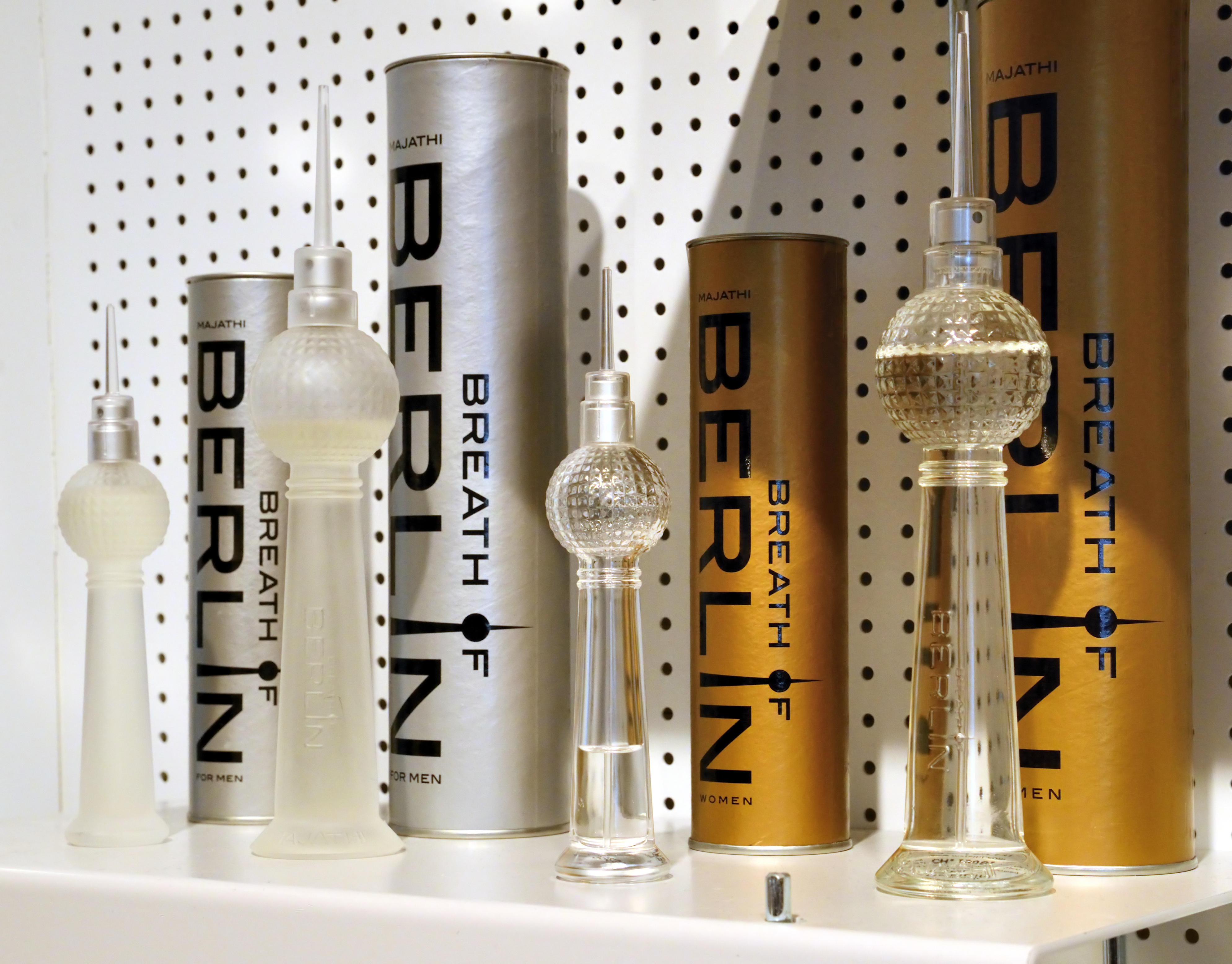 Berlin TV Tower: perfume bottles